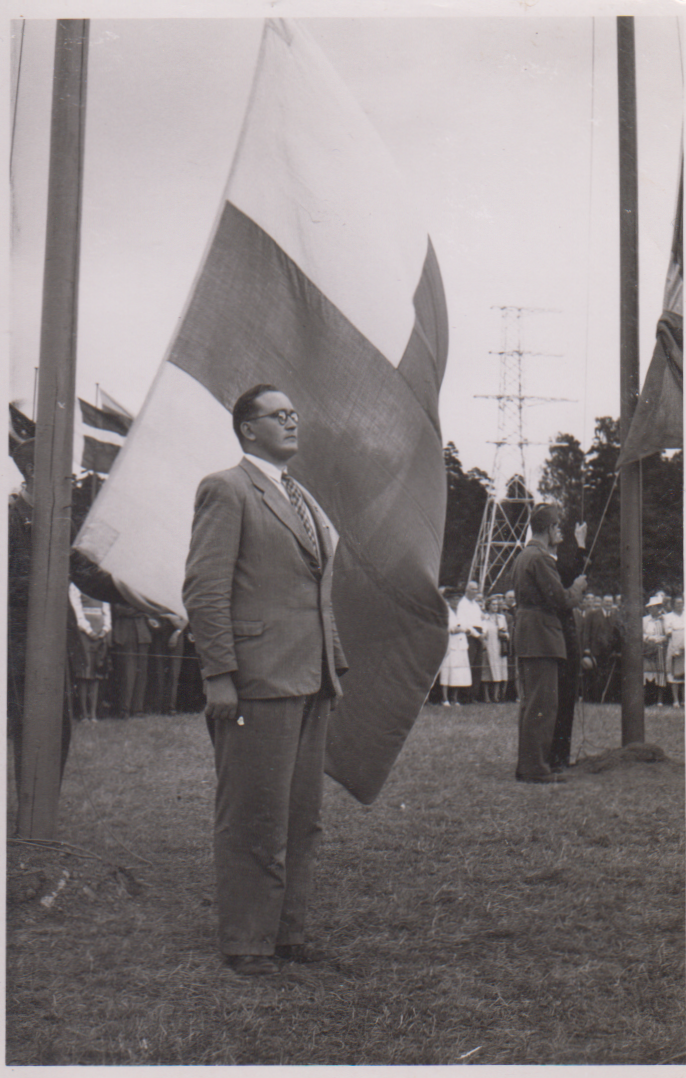 Yrjö Miettinen in Helsinki 1952.